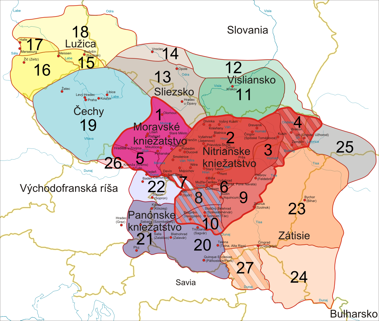 Historical map of Great Moravia